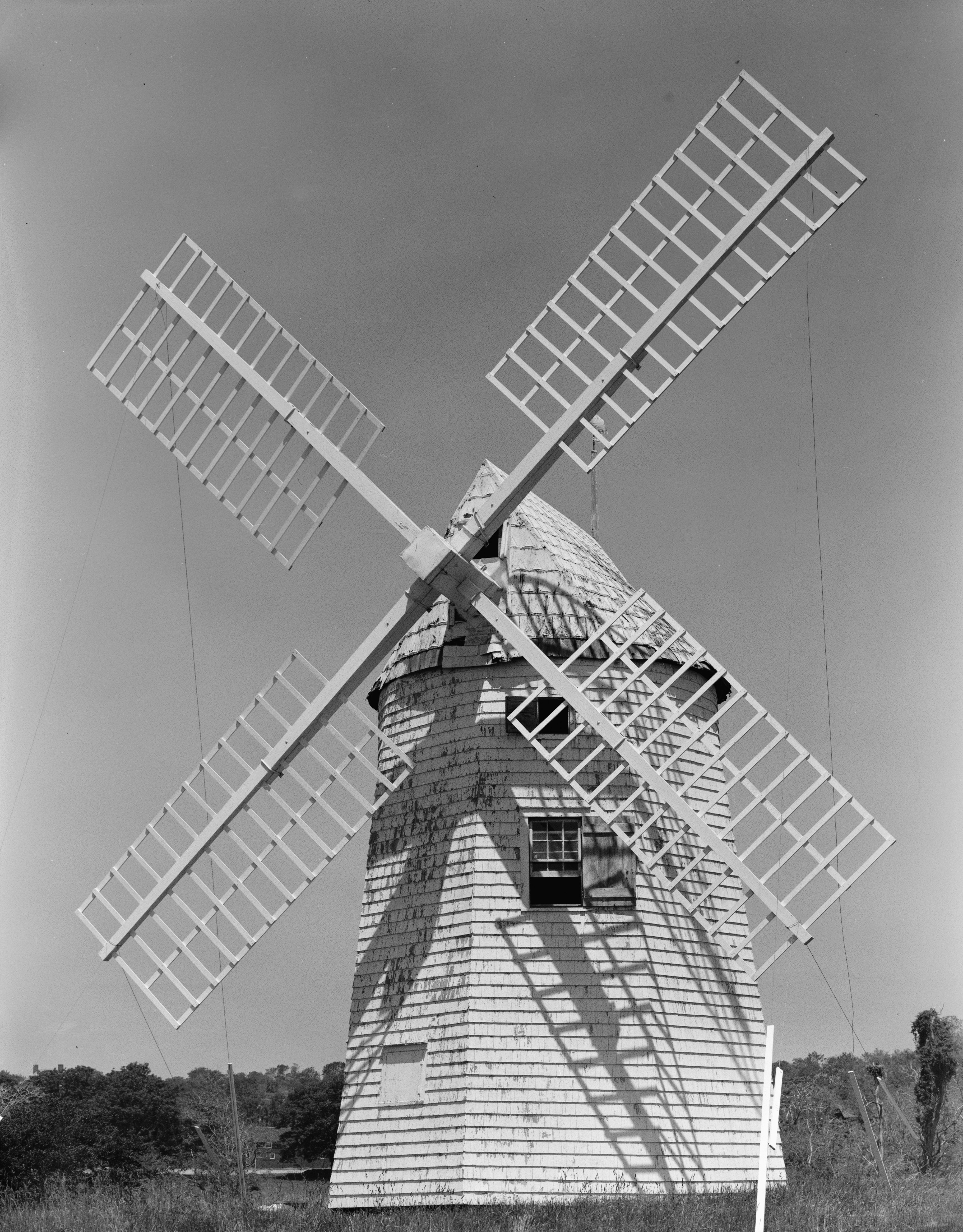 Gardiner's Island Windmill, Gardiner's Island, Suffolk County, NY. Built 1795. South Elevation.